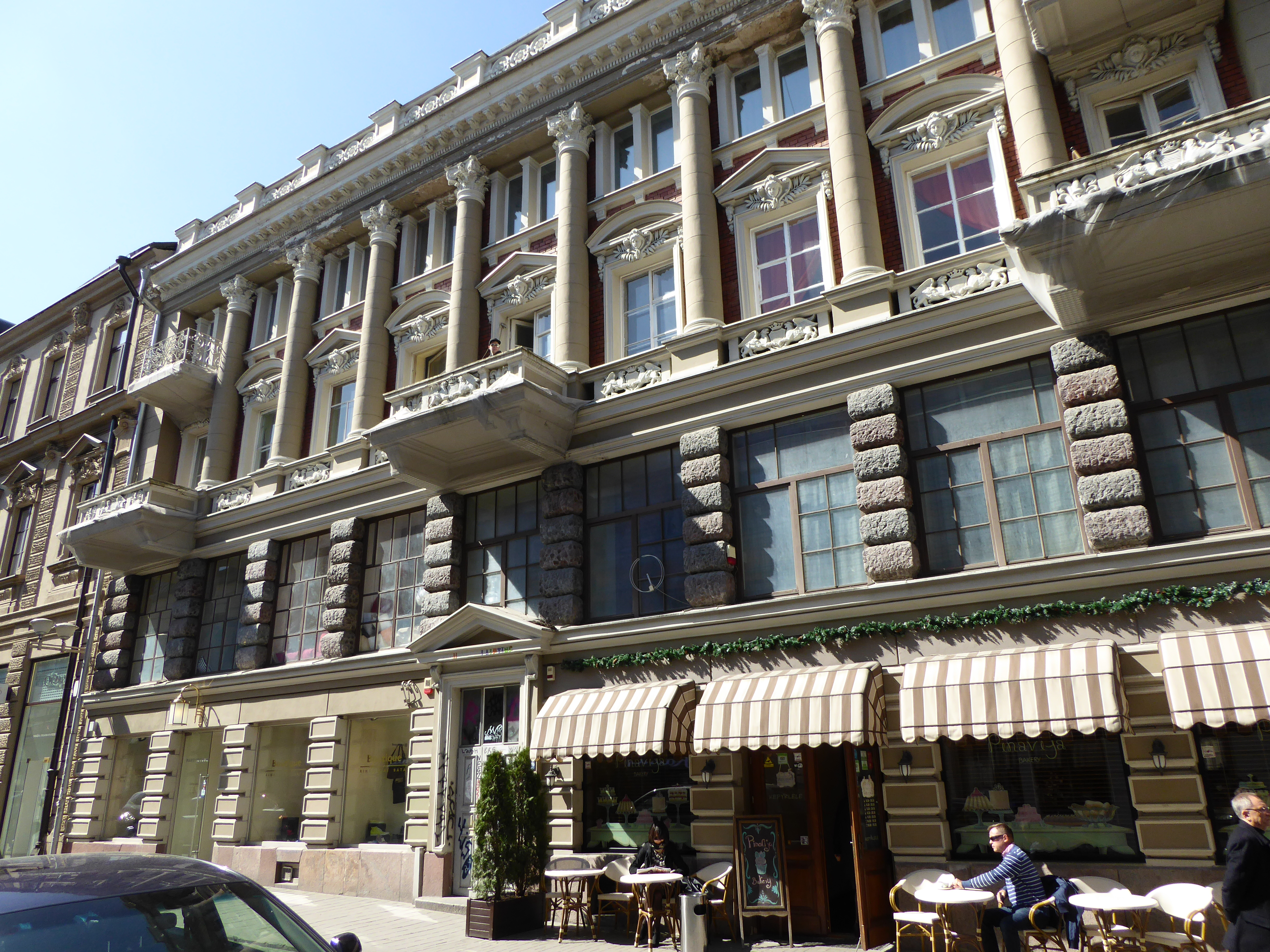 Vilniaus Street, Vilnius, Lithuania, April 2015